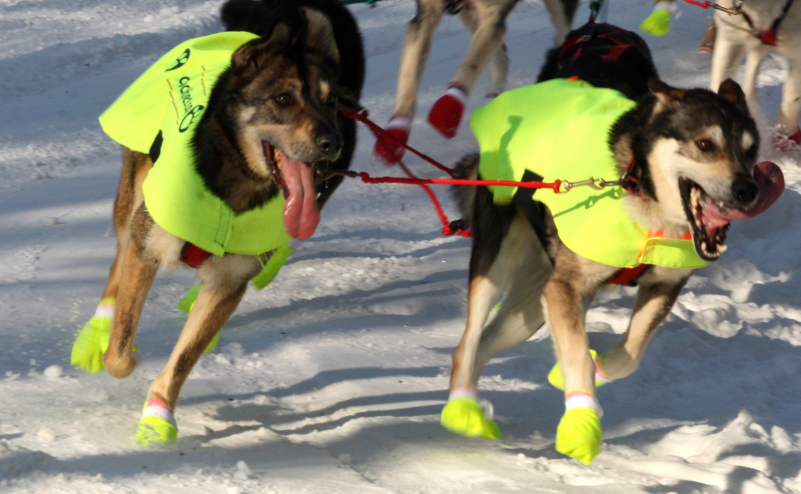 I took these photos on 8 March 2009 at the ceremonial start of the Iditarod sled dog race in Anchorage, Alaska. This was the 37th running of The Last Great Race. I get a thrill out of each race - the dogs were born to run and it is another thing that makes me proud to be an Alaskan! Note: for the ceremonial run the mushers have paying passengers - I think they are called Iditariders - these people bid on a chance to go on the ceremonial run. The actual Iditarod starts from Willow, Alaska, on the day after the ceremonial start, minus the Iditariders.